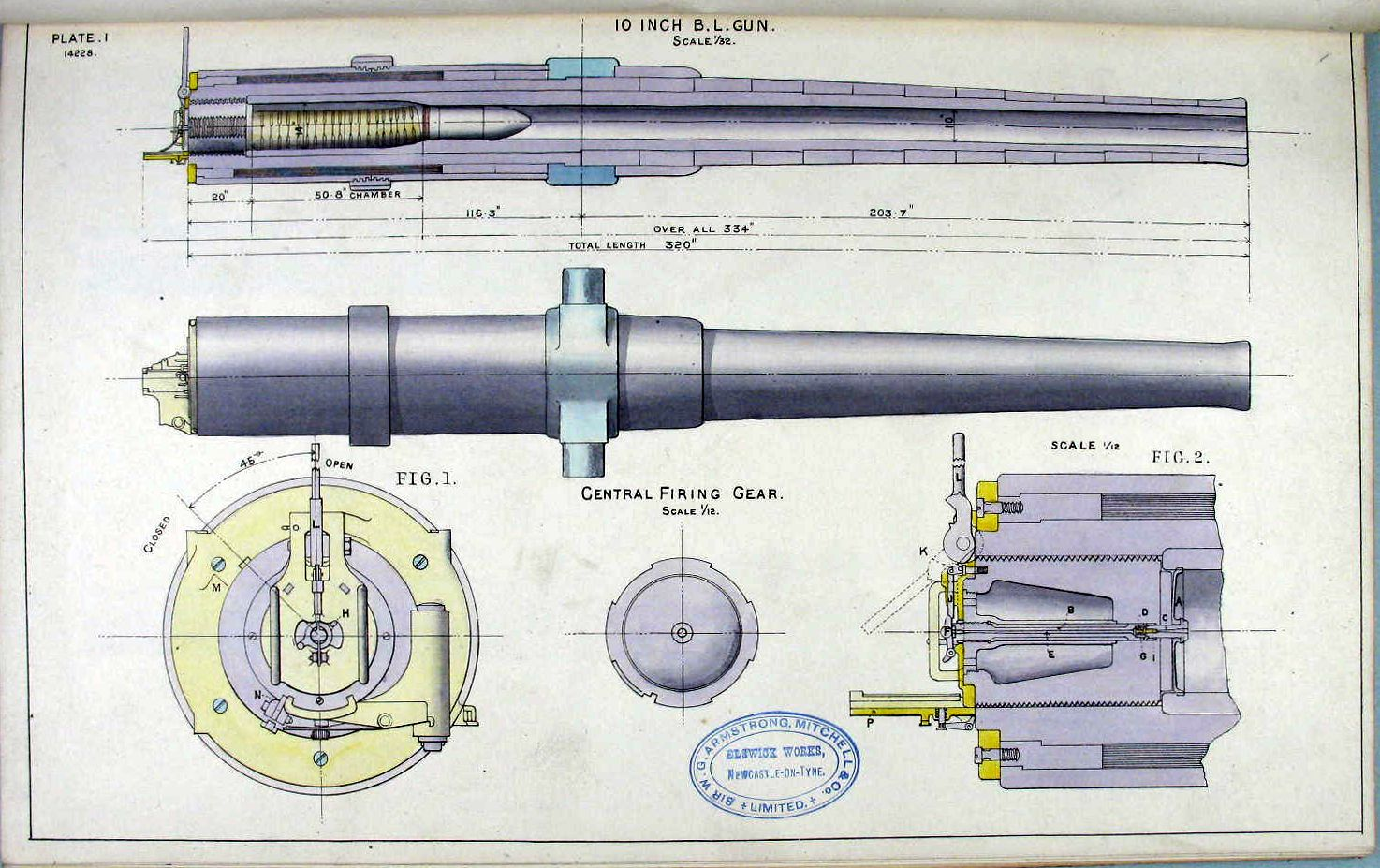 Diagrams showing barrel and breech mechanism of Armstrong 10-inch 30 calibre rifled breechloading naval gun, as purchased by Australian colony of Victoria.